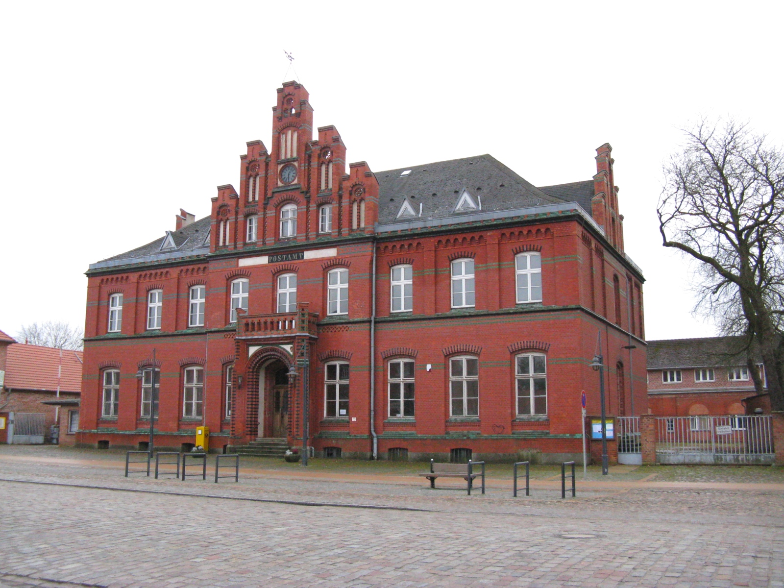 Former post office in Ludwigslust, Germany